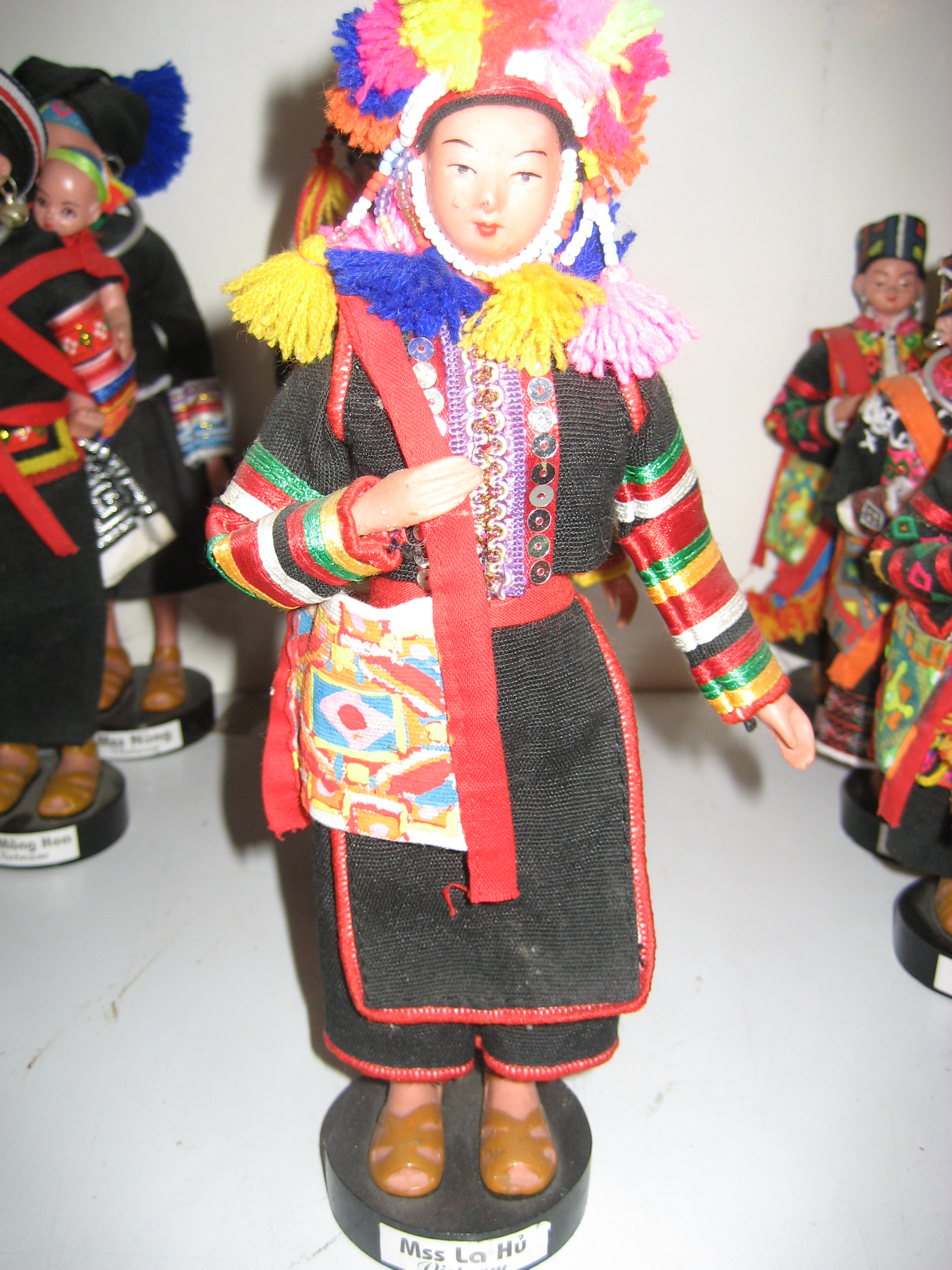 Doll of La Hu ethnic group, Vietnam